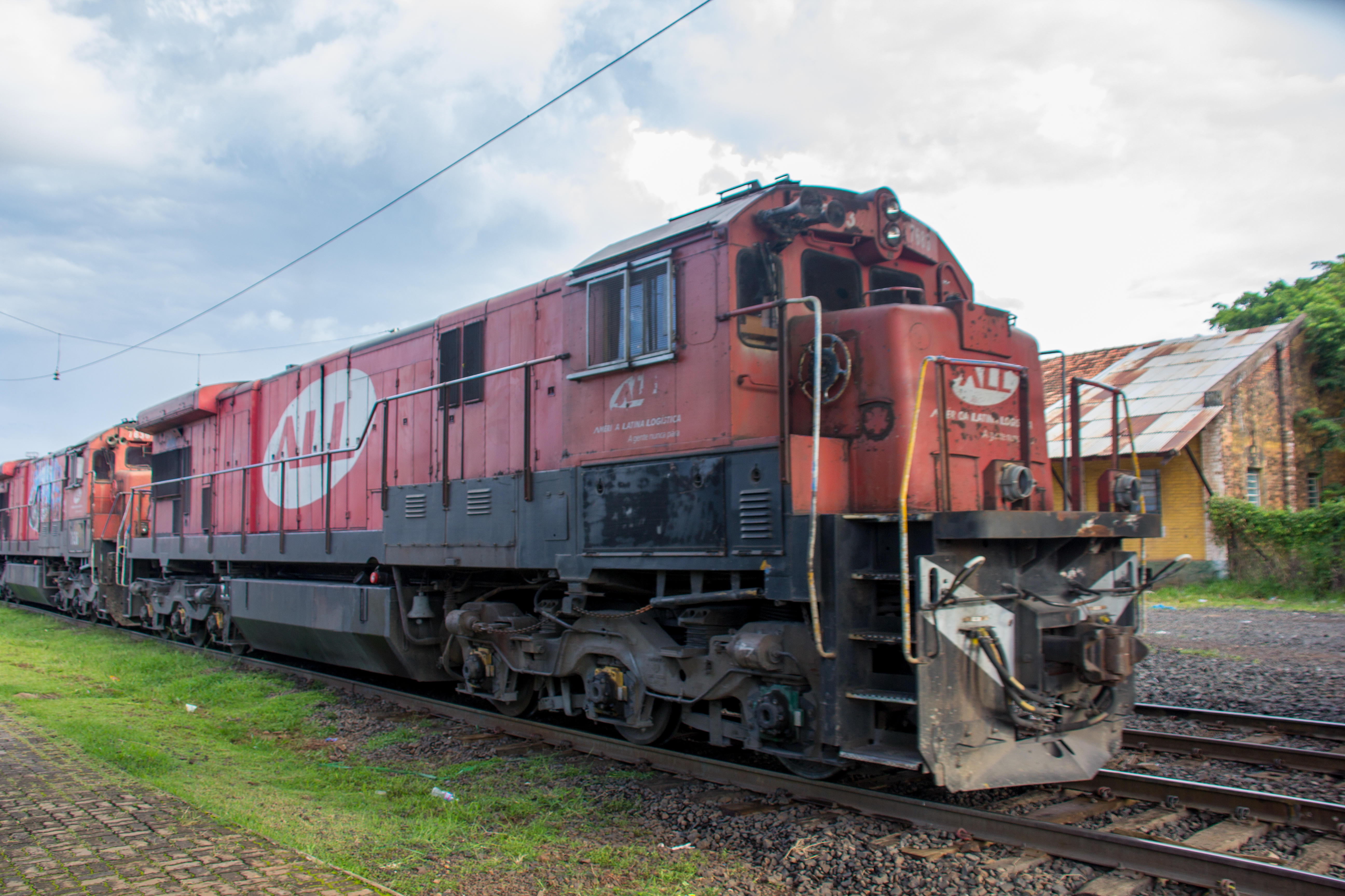 At São Carlos, Brazil